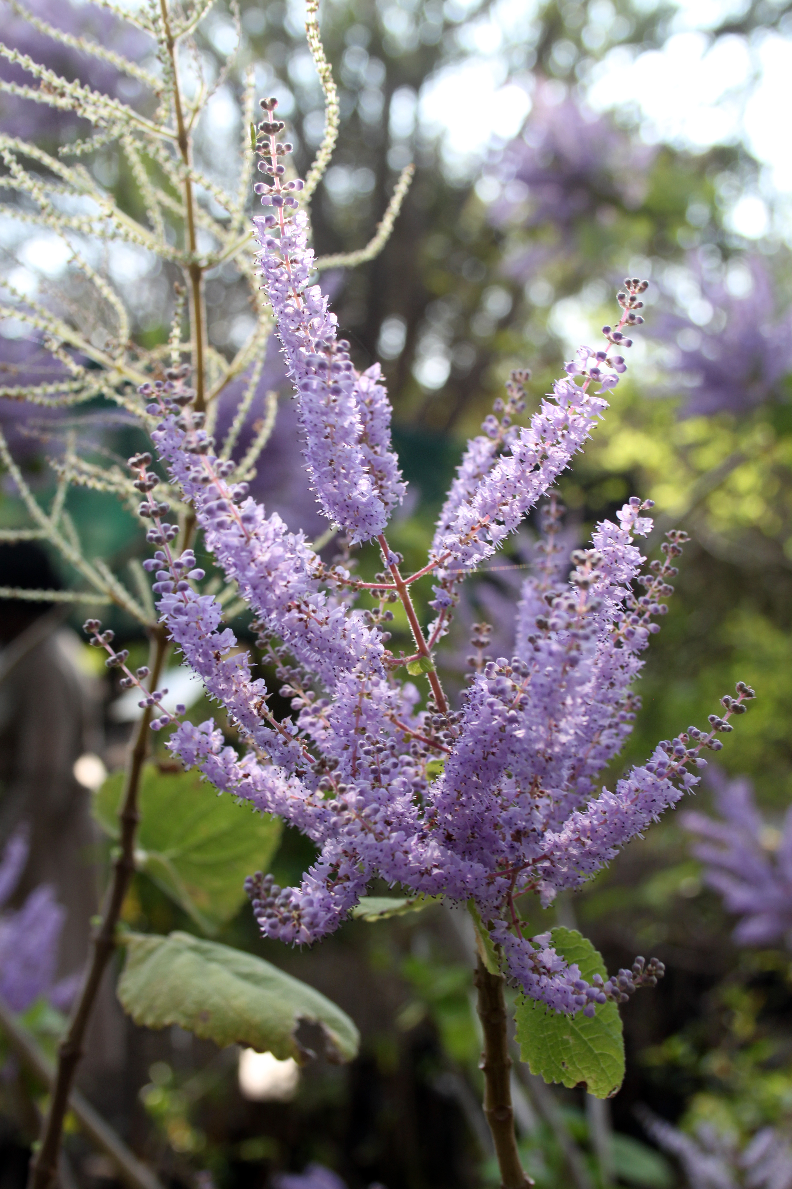 Skukuza indigenous nursery, Kruger National Park, South Africa